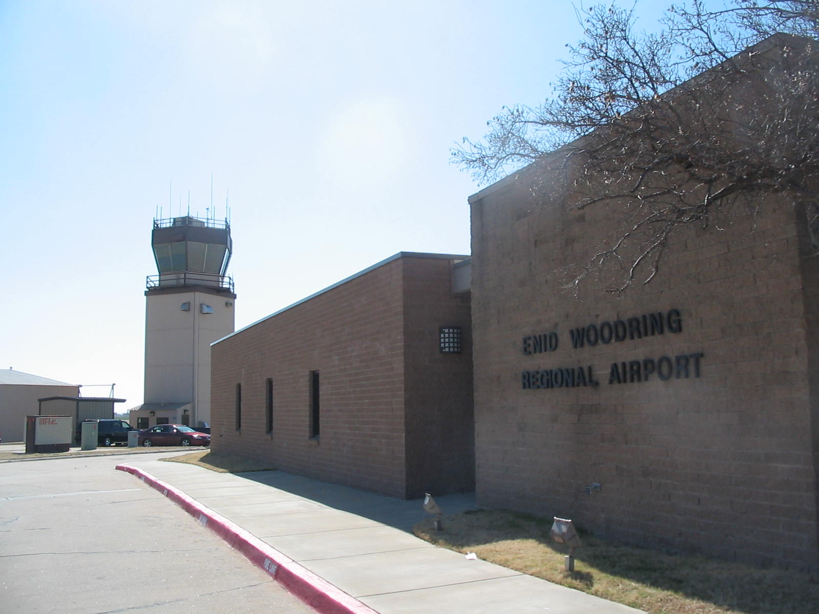 Photograph of Enid Woodring Regional Airport